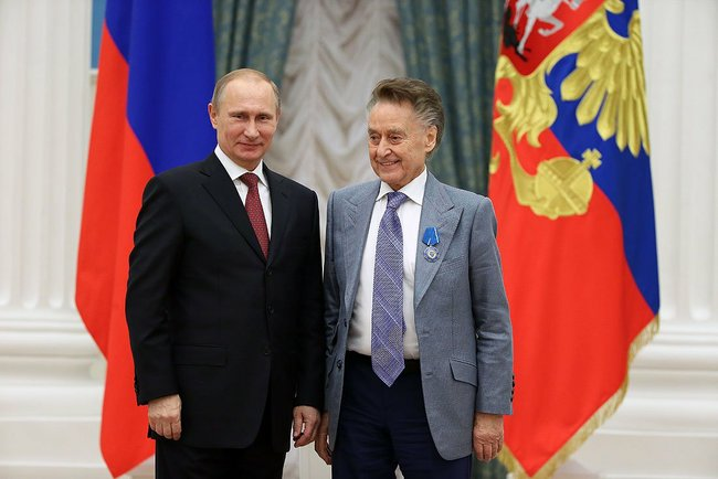 Portrait of russian poet Andrey Dementyev with President of Russian Federation Vladimir Putin